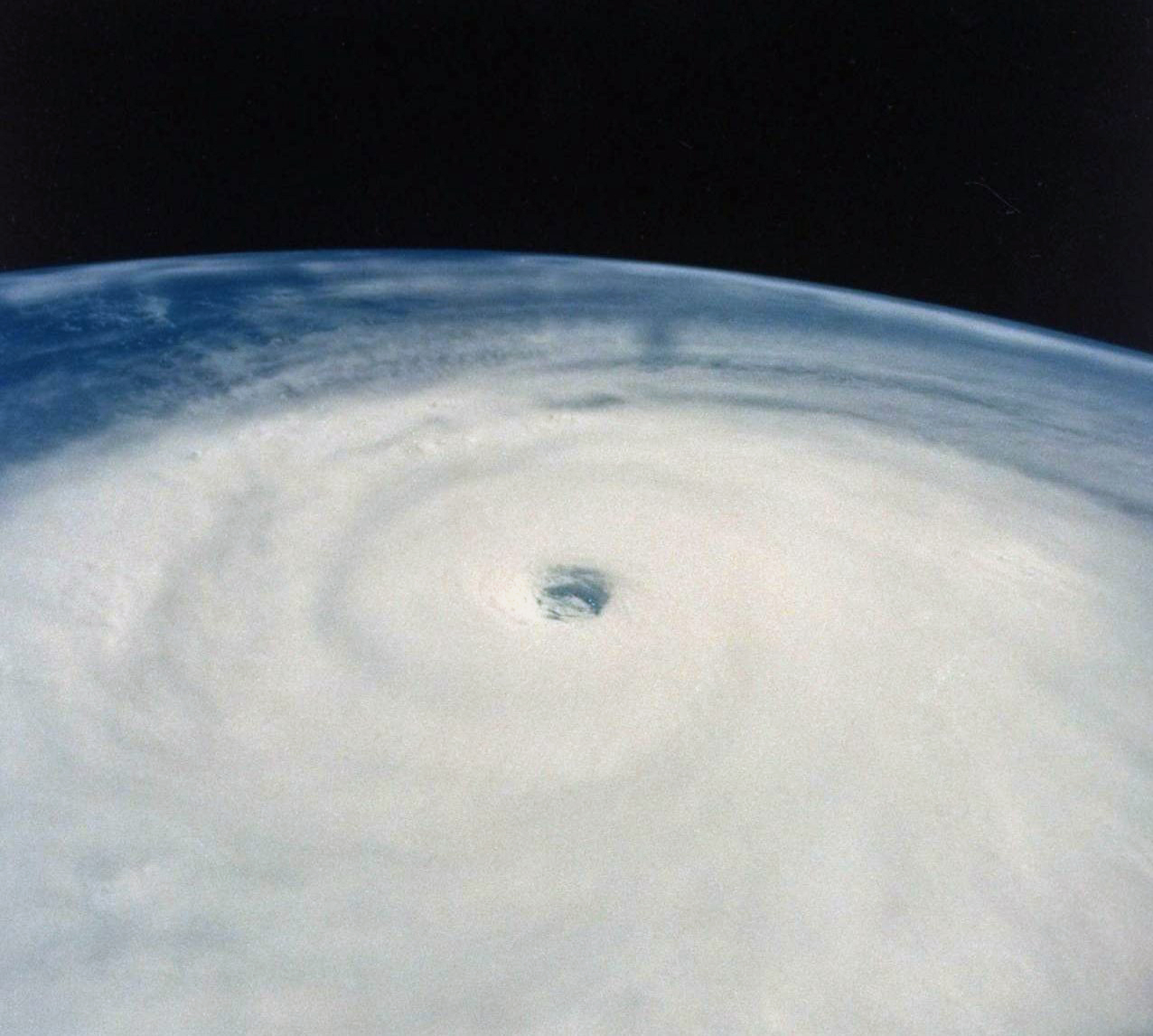 Image of powerful Typhoon Yuri in N. Pacific (E. of Philippine Islands) taken by STS-44 crew during 10th flight of space shuttle Atlantis on mil. mission (24th Nov-1st Dec.).